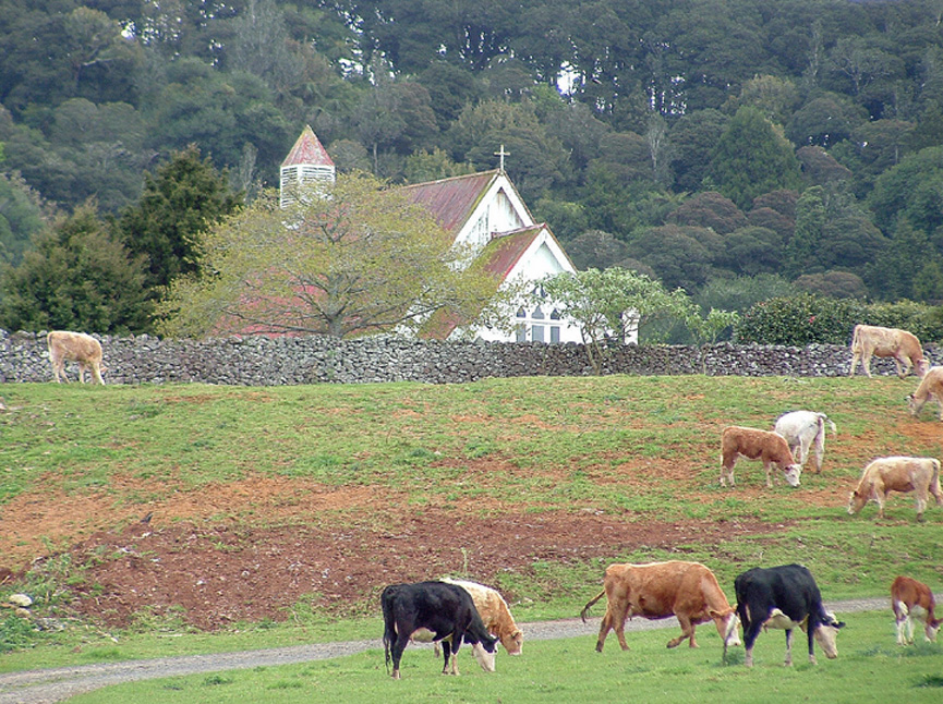 St Michael's Church, Ohaeawai, New Zealand, sits atop the pa site where the bloody Battle Of Ohaeawai was fought in 1845. NZHPT Category I; registration number 69. Photo taken by User:Moriori and released into the public domain.